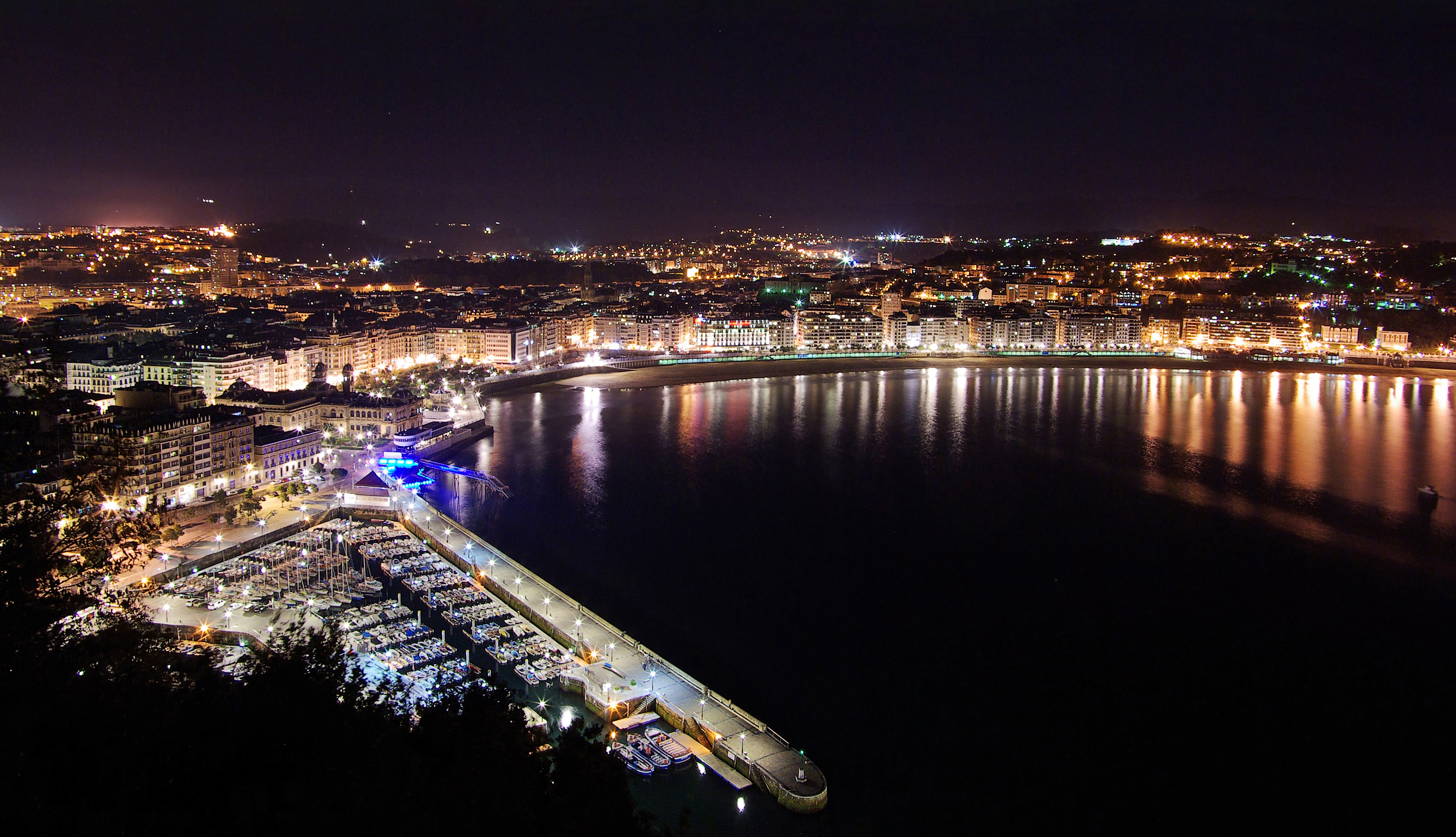 San Sebastian seen at night photographed from Monte Urgull